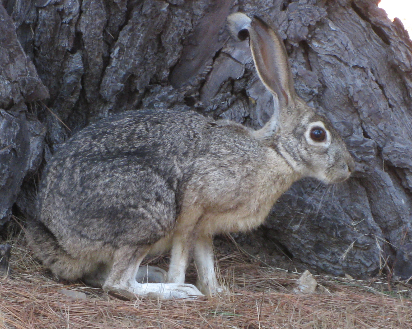 Blacktailed jackrabbit (Lepus californicus) in open woodland on coastal hills in Marin County, California.